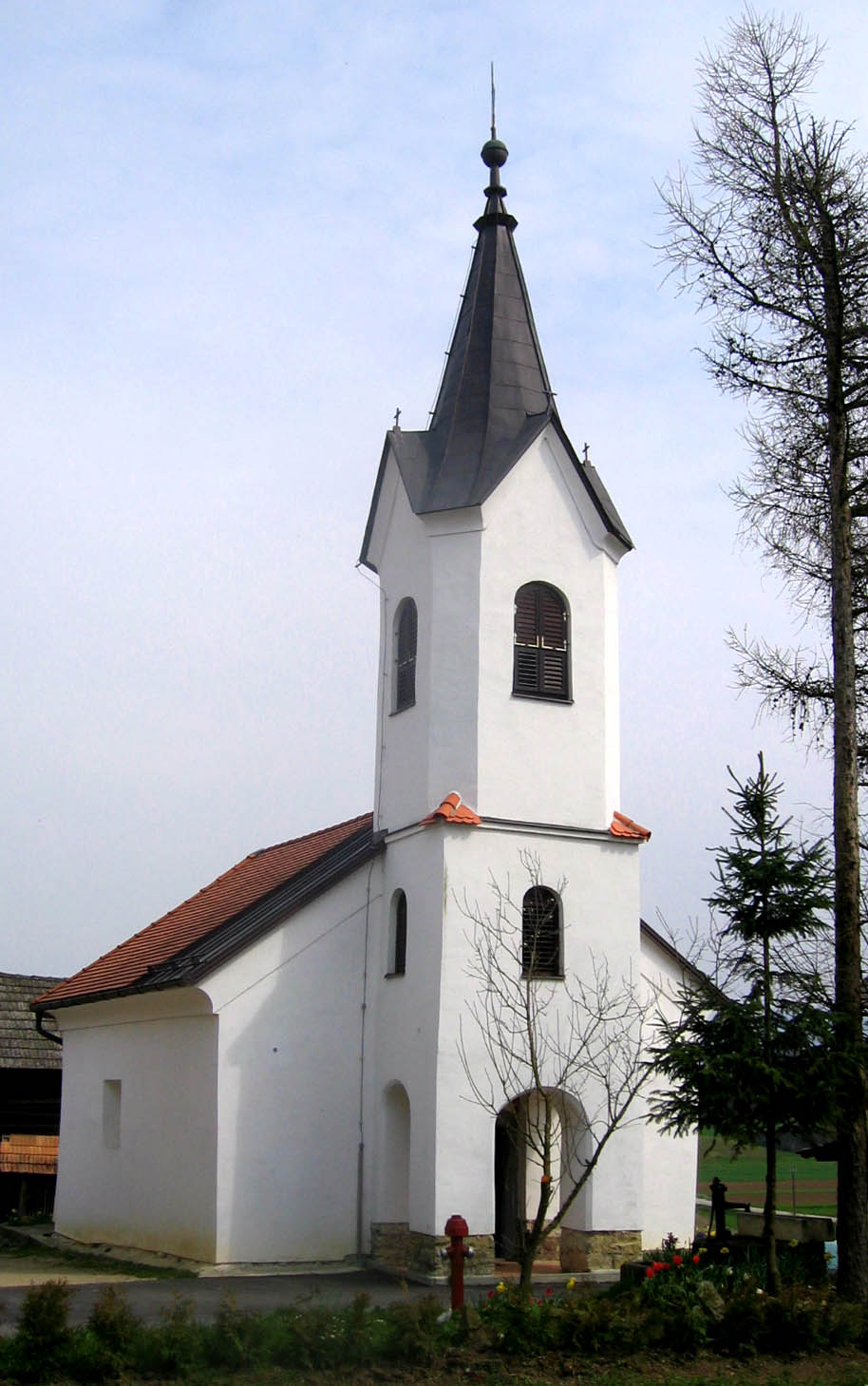 Church of St. Žiga (Siegismund) in Polhovica, Slovenia. photo:Ziga 20:28, 1 April 2007 (UTC)